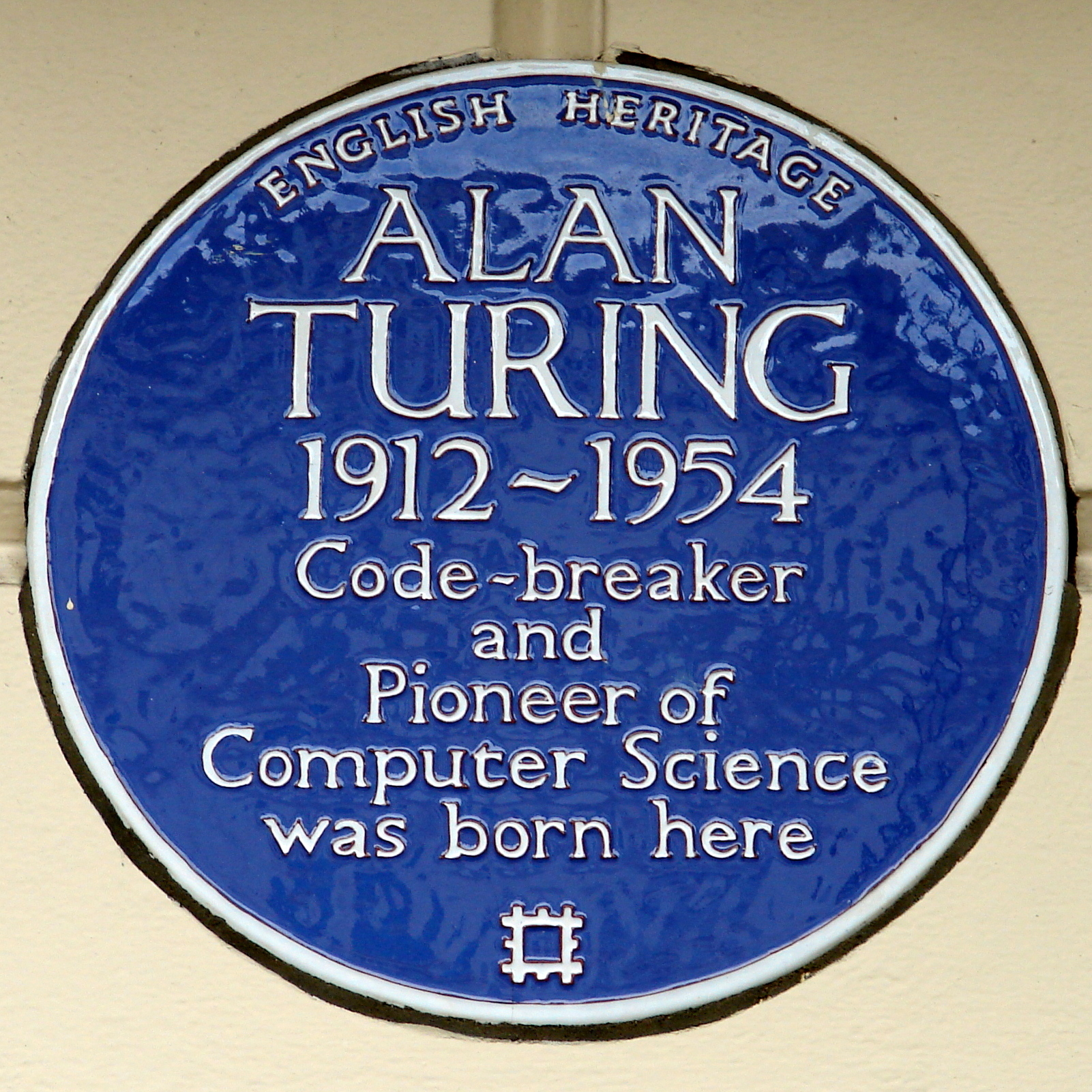 Alan Turing blue plaque on the Colonnade Hotel, London, England, his 1912 birthplace, installed in 1998.